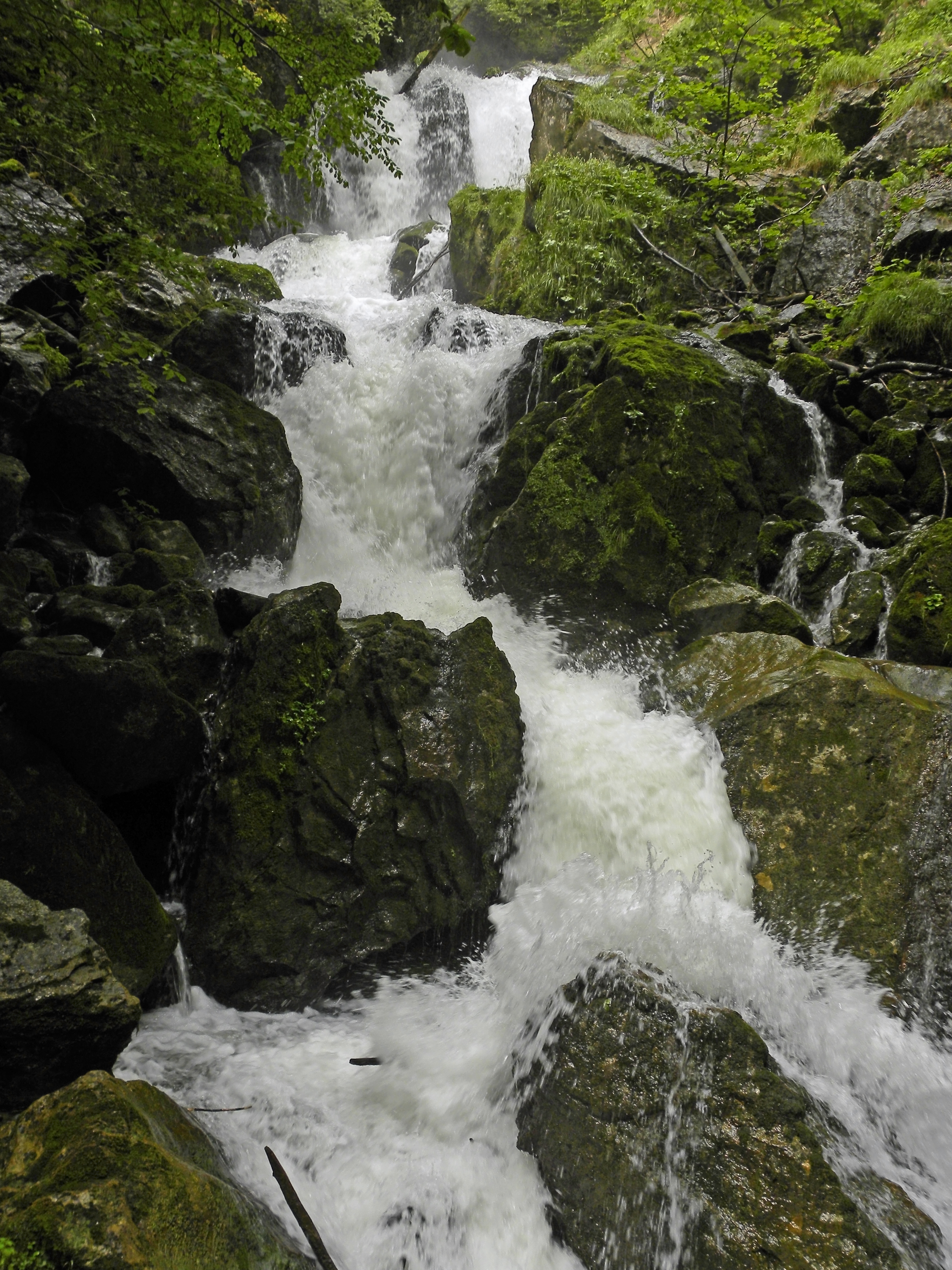 The Treffling waterfall at Naturpark Ötscher-Tormäuer